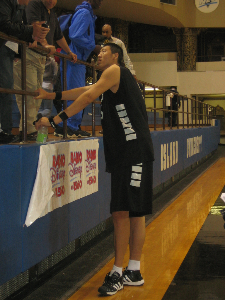 Sun Mingming, Brooklyn 2006